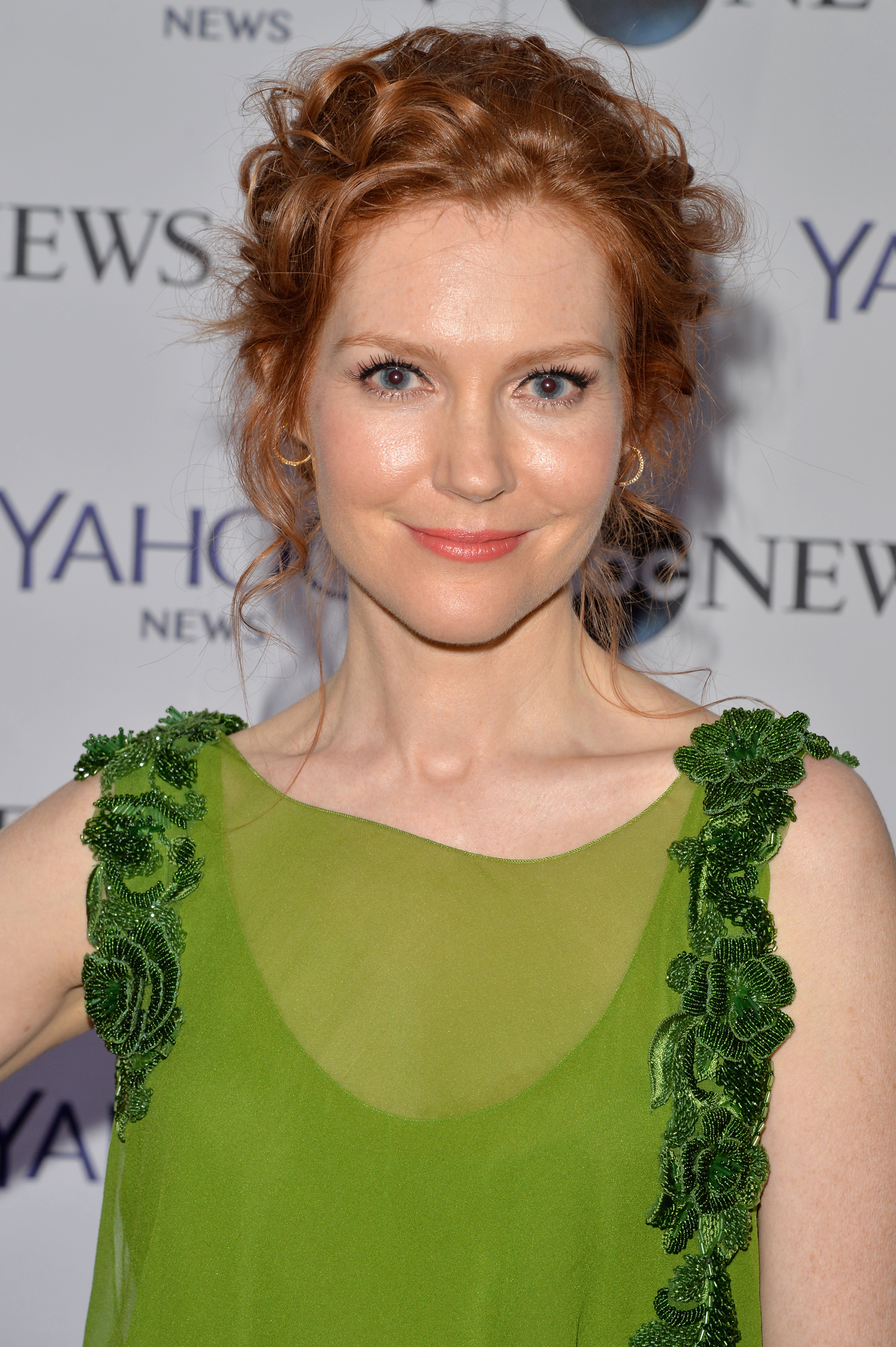 WASHINGTON, DC - MAY 03: Actress Darby Stanchfield attends the Yahoo News/ABCNews Pre-White House Correspondents' dinner reception pre-party at Washington Hilton on May 3, 2014 in Washington, DC. (Photo by Andrew H. Walker/Getty Images for Yahoo News)